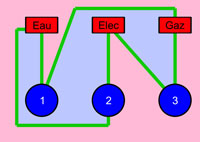 Use of Jordan curve theorem in order to solve the water gaz electricity enigma